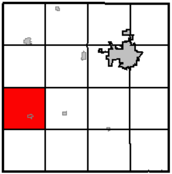 Map of Adams County, Nebraska highlighting Cottonwood Township; created with the GIMP. Made by User:Acntx.